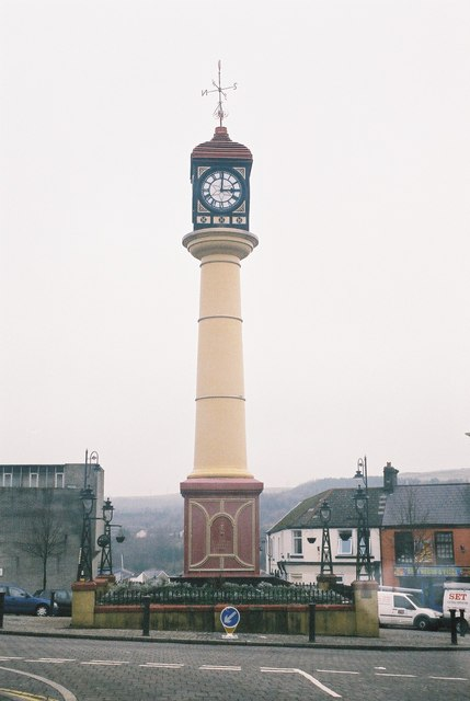 3 o'clock in Tredegar This is what Tredegar probably looked like at 3 o'clock on 17 February 2007. It looked like this at noon, so presumably the clock is stopped!